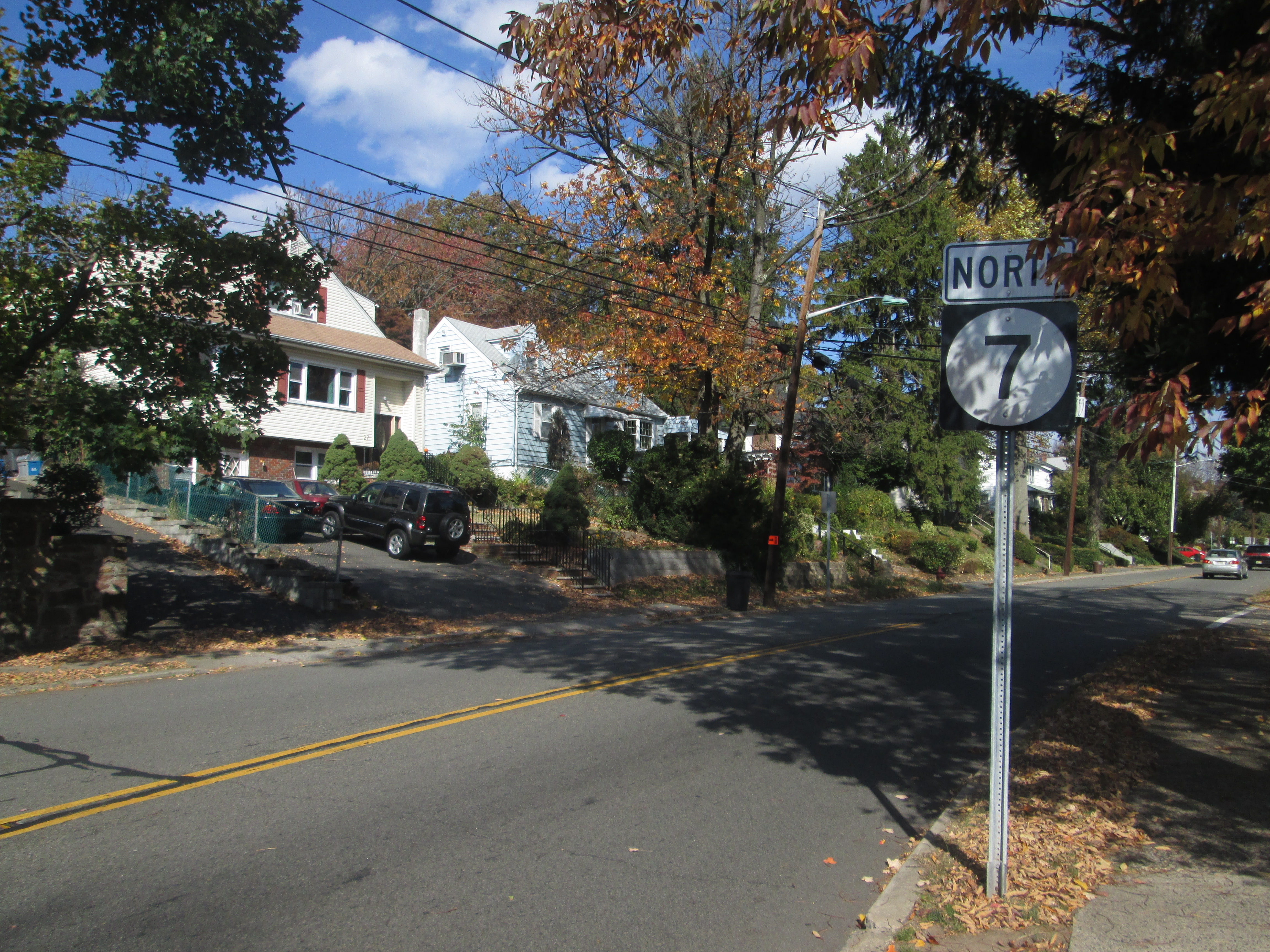 Route 7 northbound through Nutley, New Jersey.